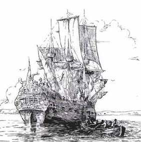 HMS Roebuck, the ship of William Dampier